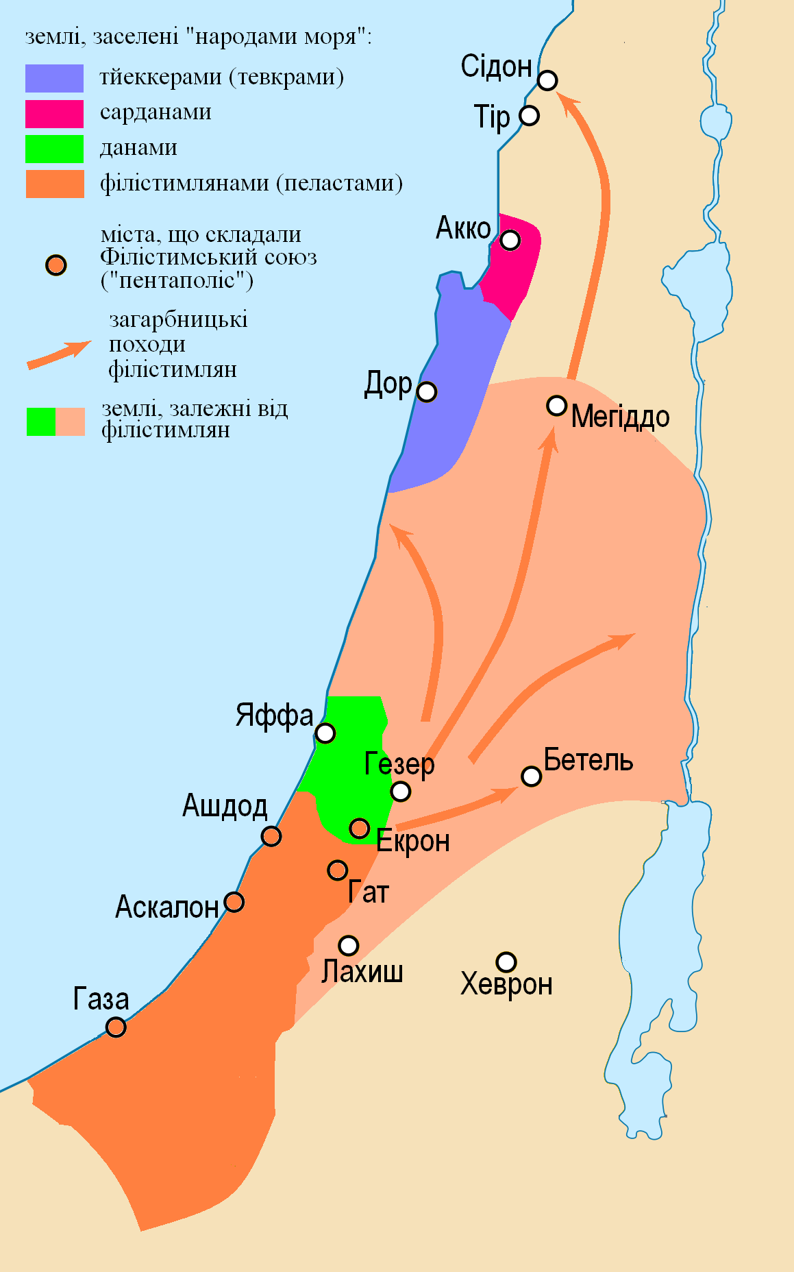 Map of South Chanaan after Sea Peoples' invasion (ukrainian)